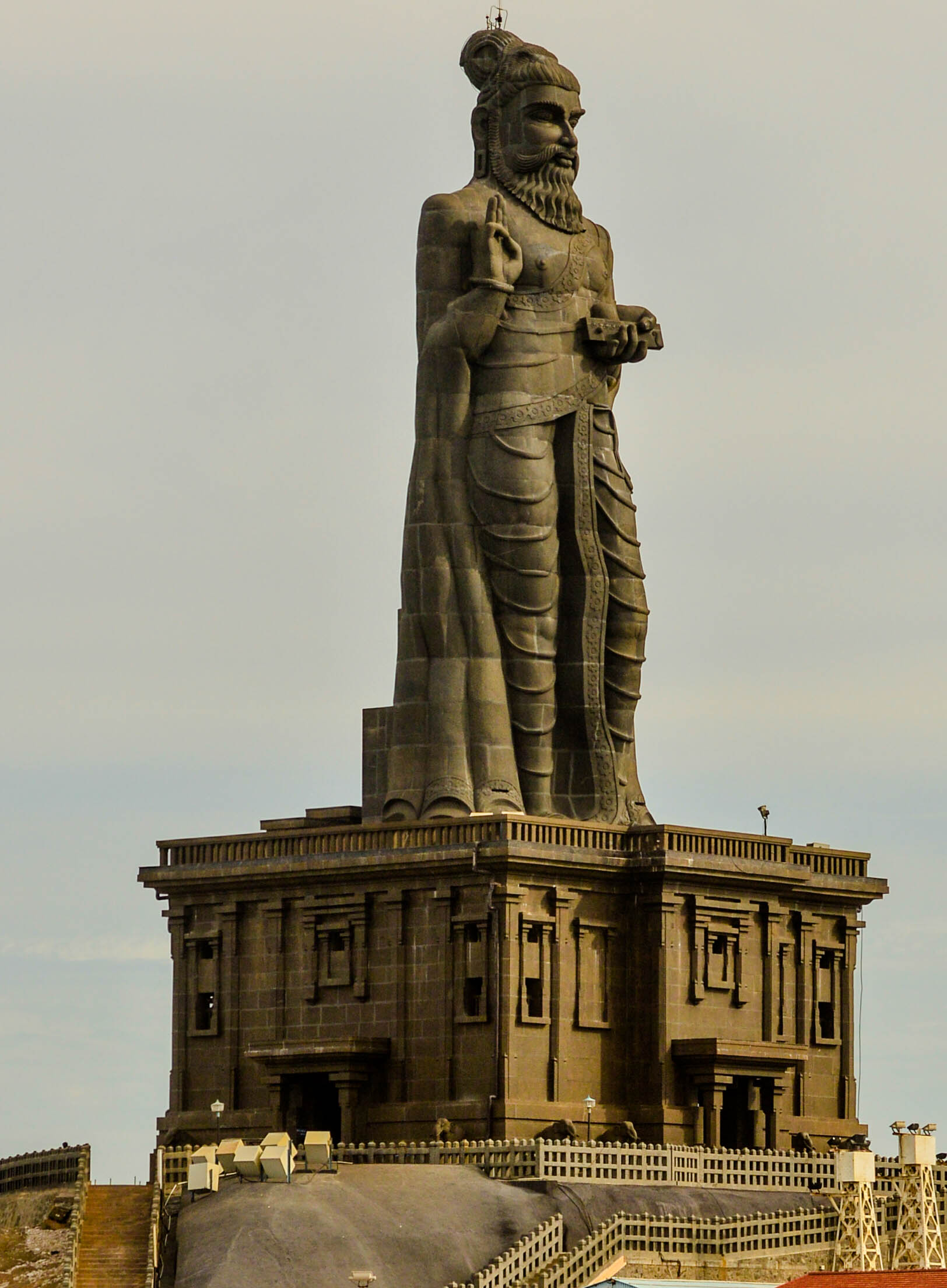 The Thiruvalluvar Statue is a 133 feet (40.6 m) tall stone sculpture of the Tamil poet and saint Tiruvalluvar, author of the Thirukkural.The statue has a height of 95 feet (29 m) and stands upon a 38 foot (11.5 m) pedestal that represents the 38 chapters of "virtue" in the Thirukkural.The statue stands 400 meters from the coastline of Kanyakumari on a small island rock.